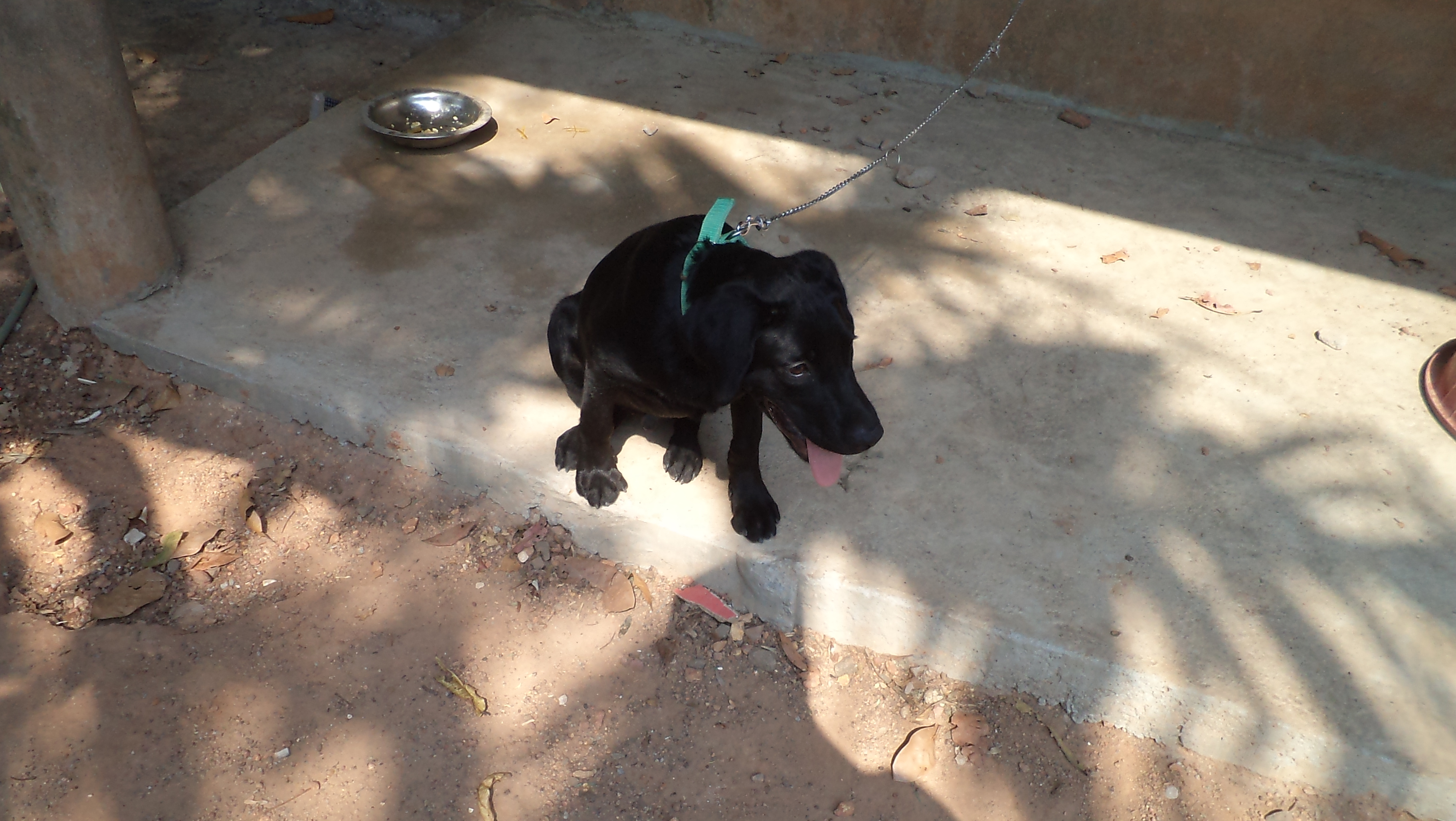 A black Labrador puppy